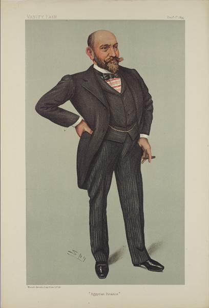 Men of the Day No.0767: Caricature of Sir EJ Cassel [1]. Caption reads: "Egyptian Finance"